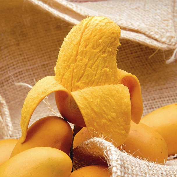 this is a picture of mango fruit from Atoyac lands